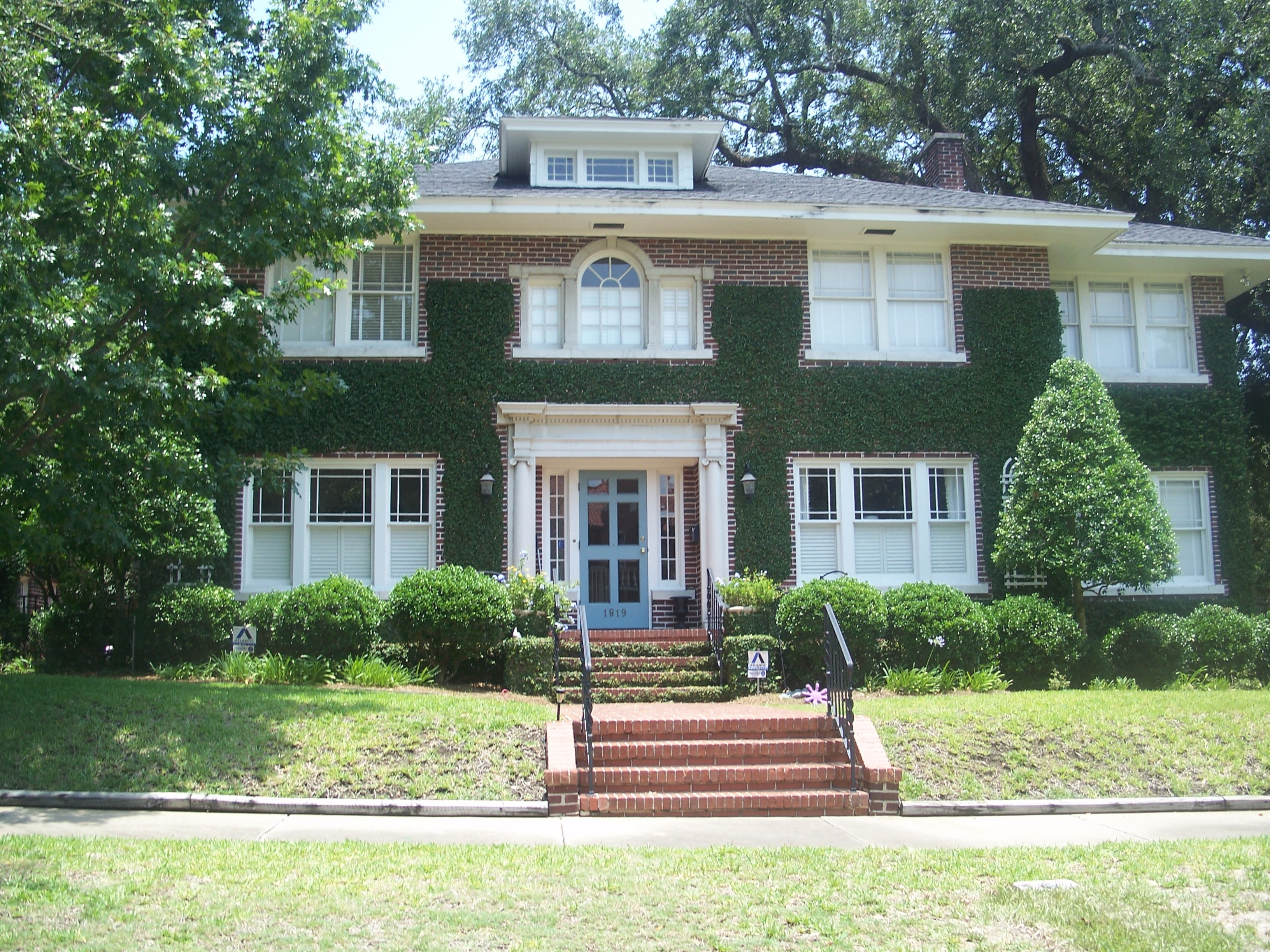 Jacksonville, Florida: Avondale Historic District